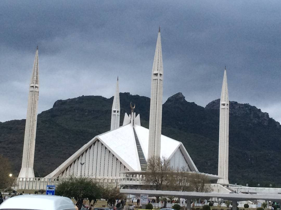 Faisal Mosque (in cloudy weather)